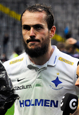 Emir Kujovic